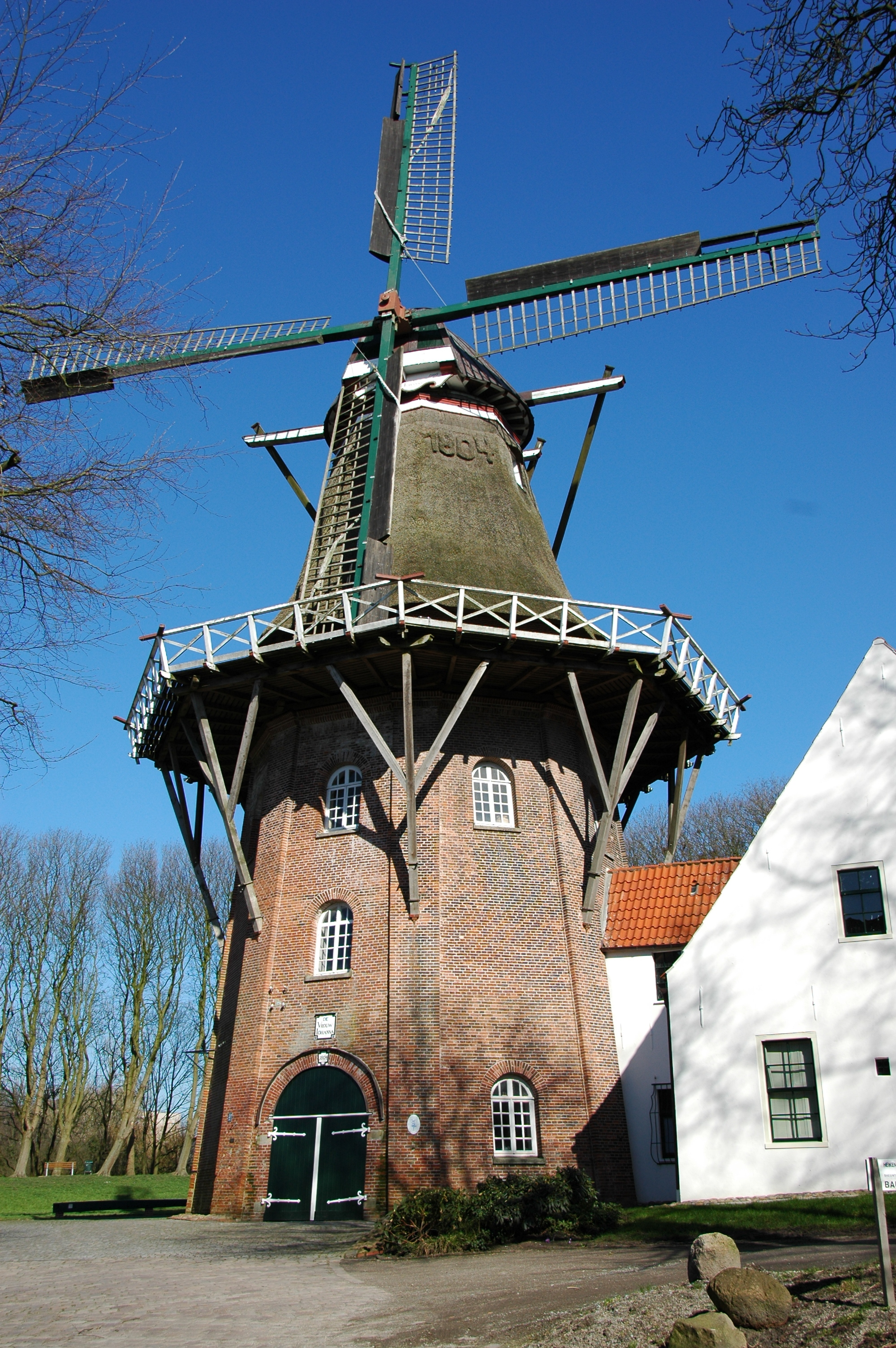 Windmühle "Vrouw Johanna" in Emden Windmill called "Vrouw Johanna" in Emden, Lower Saxony, Germany Own work. Picture taken at 11th of March, 2007 by Rolf Drewes